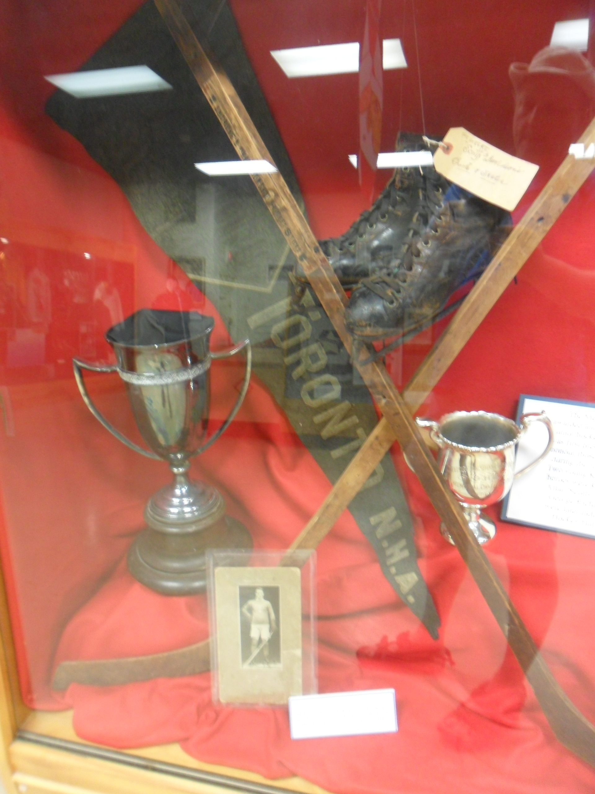 Banner for Toronto NHA Stanley Cup champions, plus stick and skates of hockey great Harry Cameron